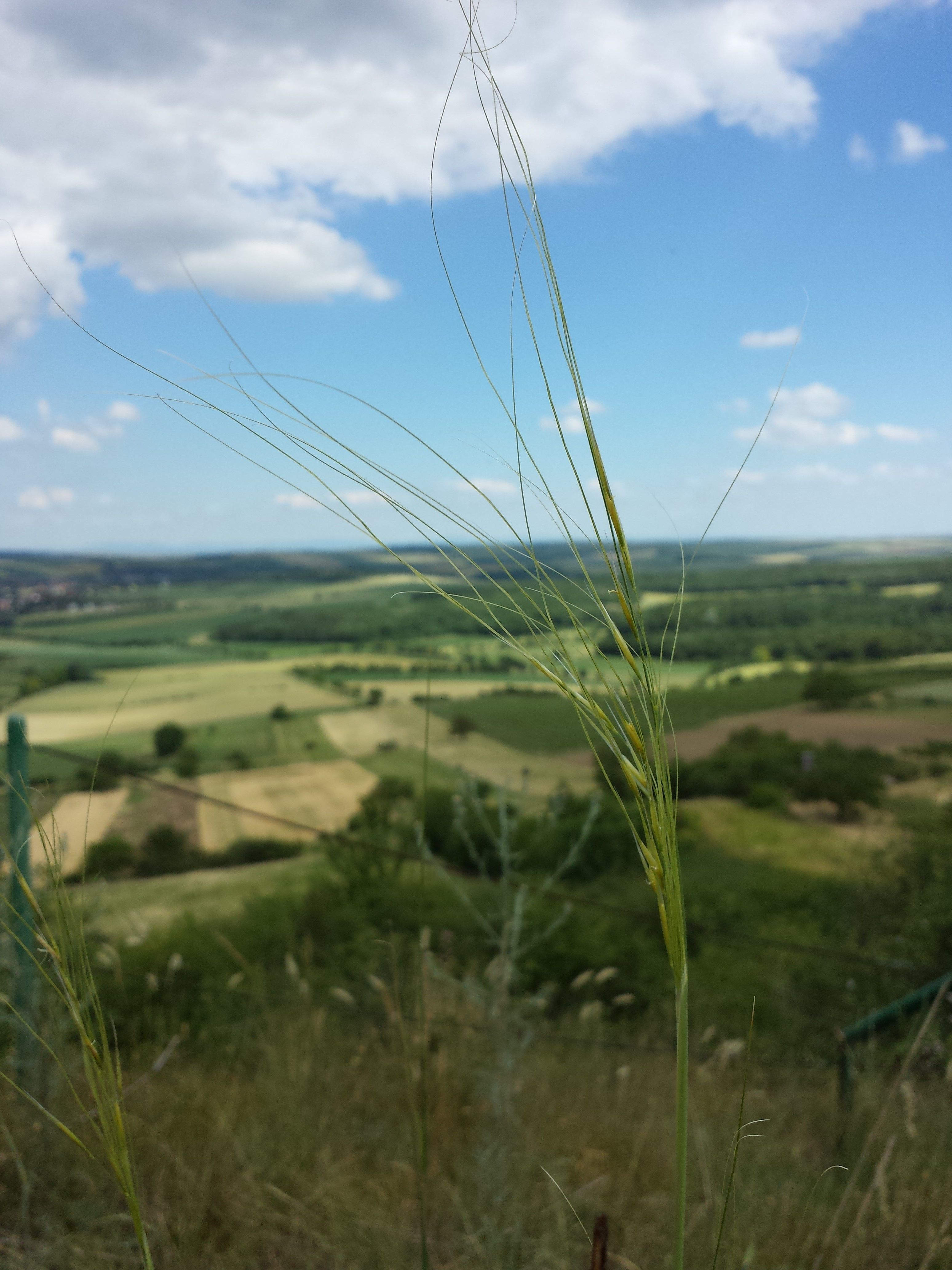 Habitus Taxon: Stipa capillata (sensu Fischer et al. EfÖLS 2008 ISBN 978-3-85474-187-9; det. M. A. Fischer 2014-06-14) Location: Schweinbarther Berg, district Mistelbach, Lower Austria - ca. 330 m a.s.l. Habitat: rock steppe (lime stone)